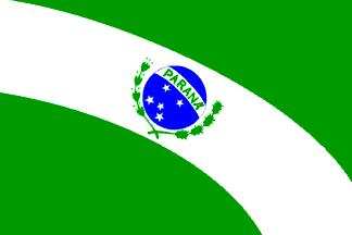 Paraná Flag, 1905-1923